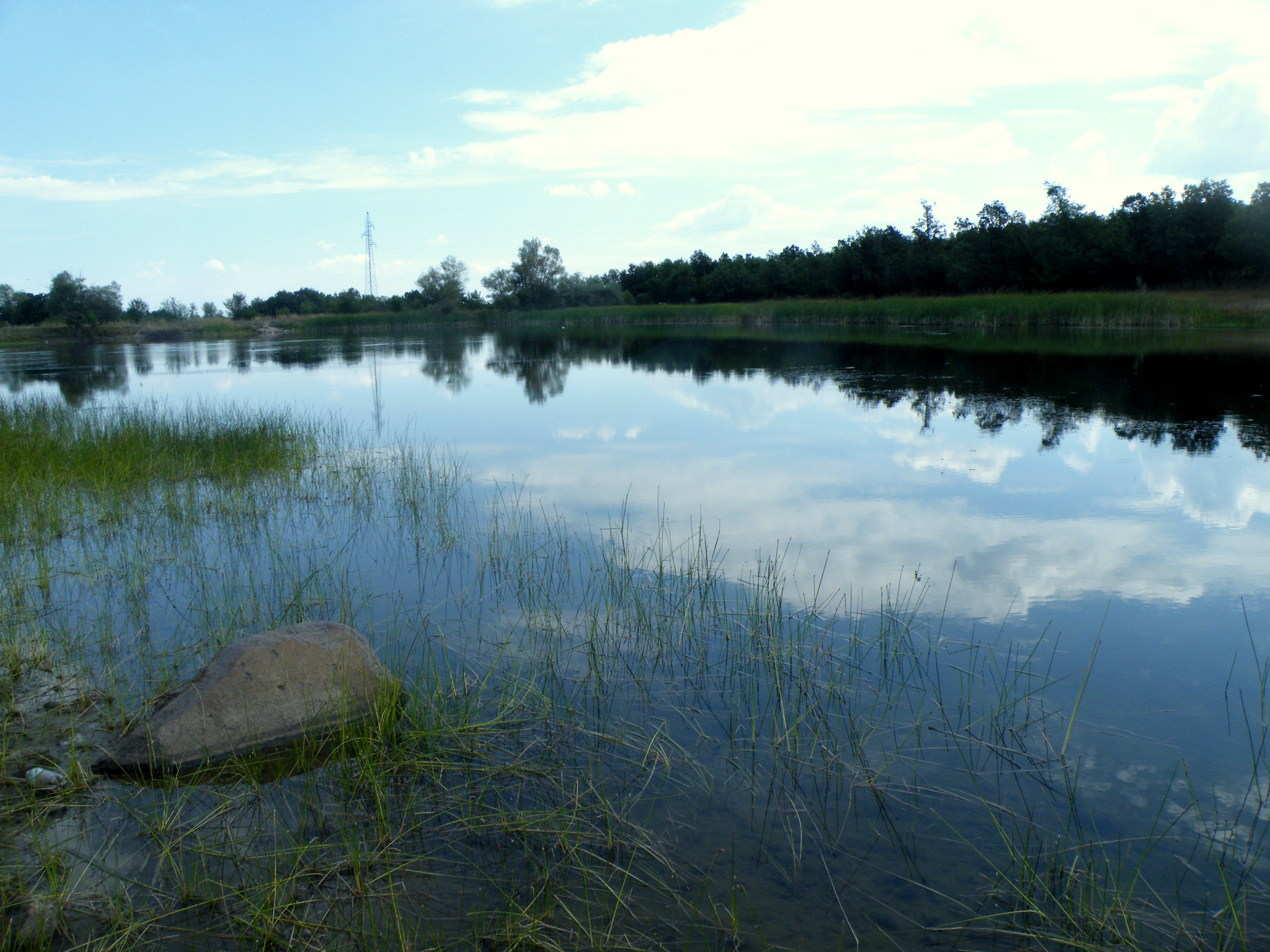 Vitacevo reservoir is 10km away from the town of Kavadarci.